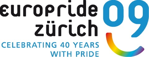 Logo of the Europride 2009, Zürich, Switzerland